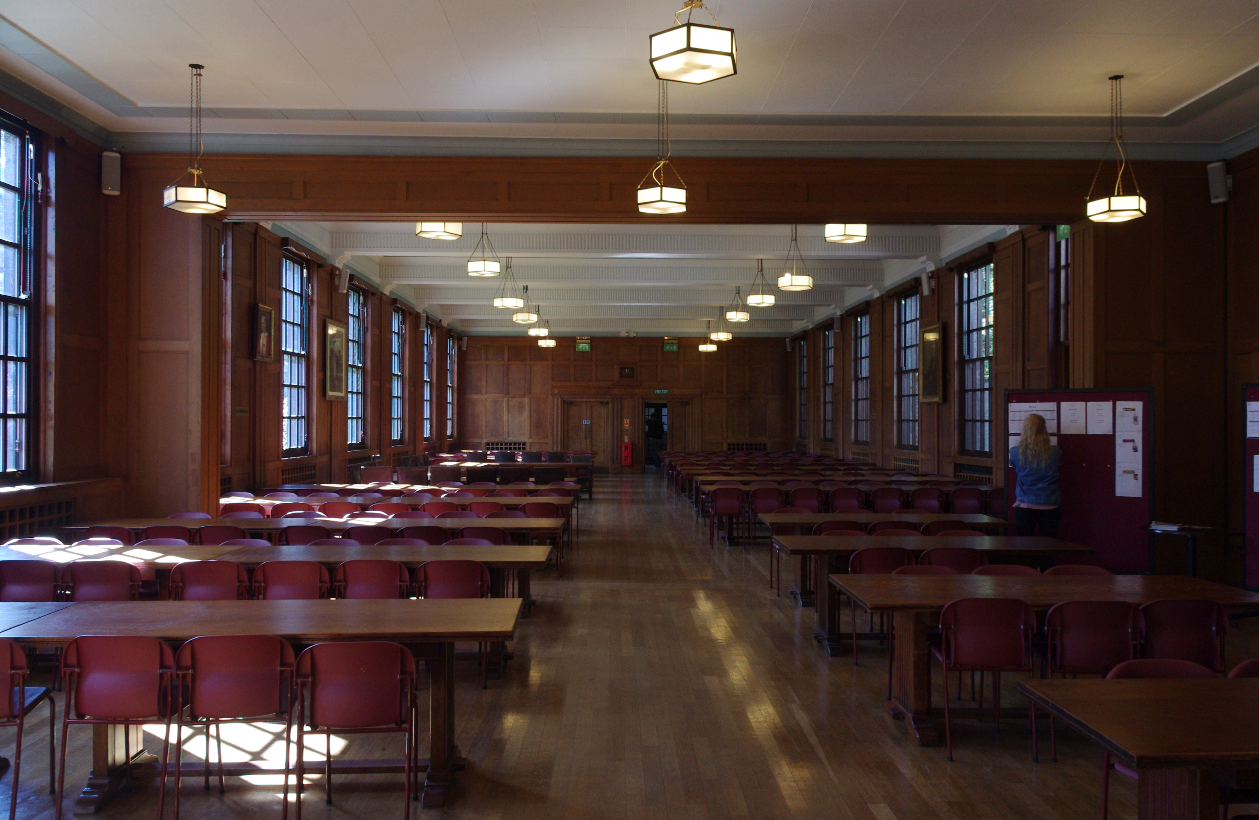 Interior of the dining hall of Hugh Stewart Hall at the University of Nottingham.